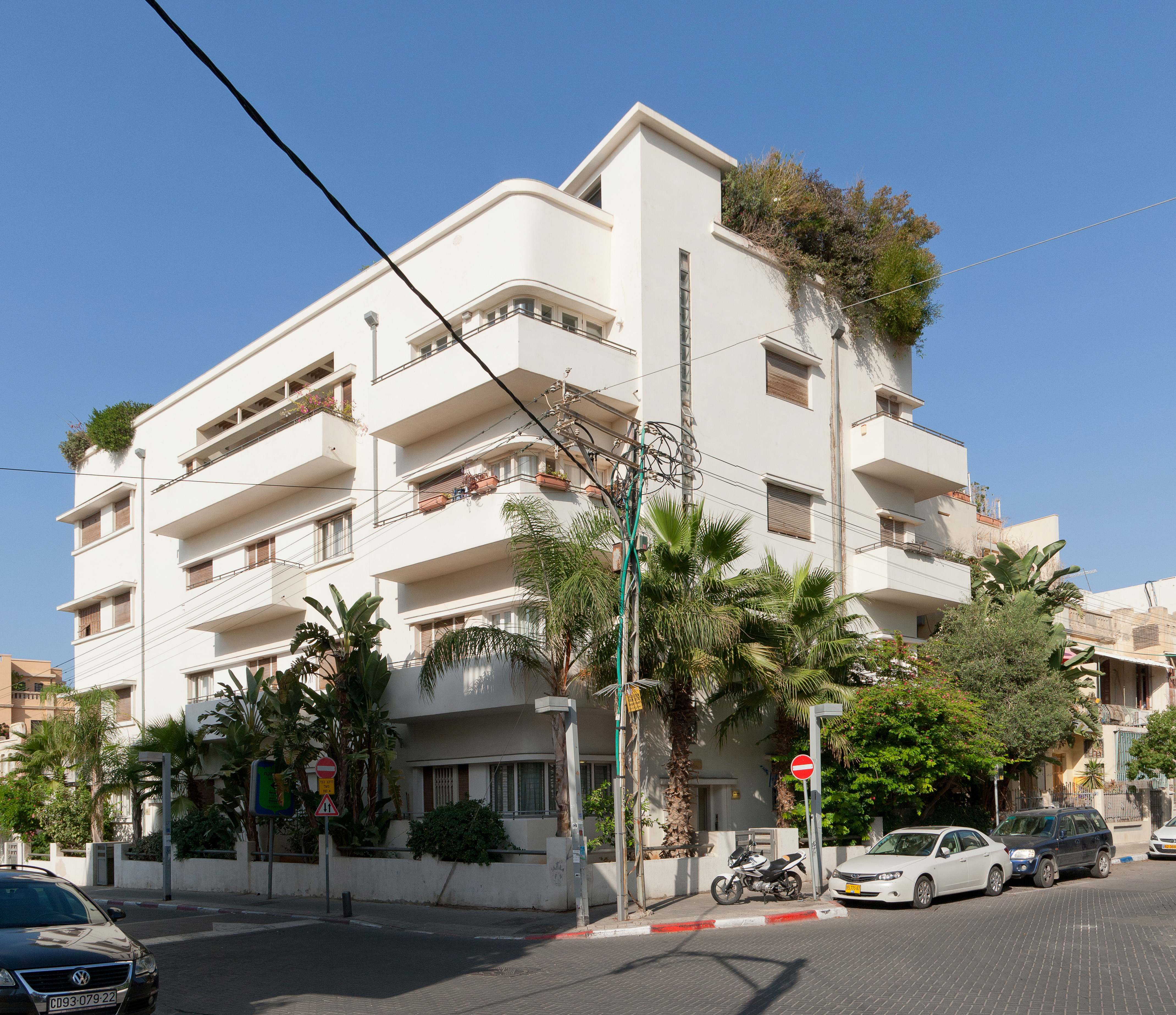 International Style building at Pines Street 31 / Yehuda Halevi Street 1, Tel Aviv, Israel under preservation as part of the White City of Tel Aviv